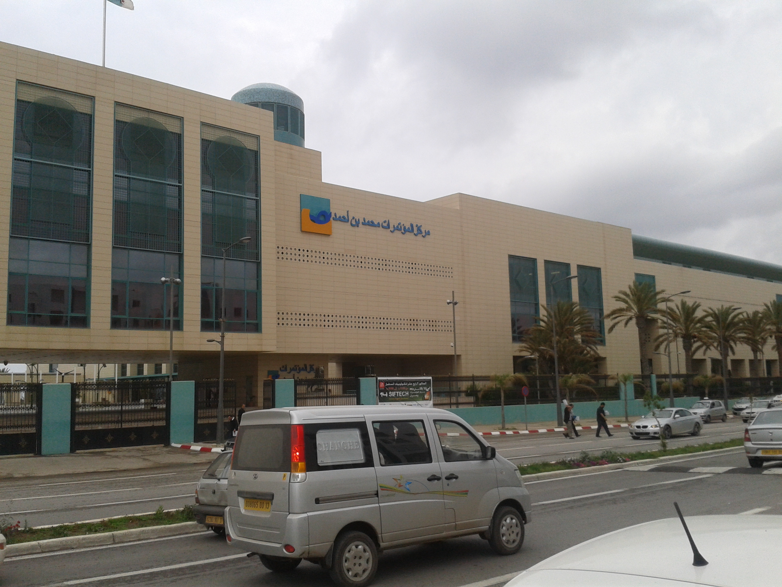 Conventions Center, Oran, Algeria